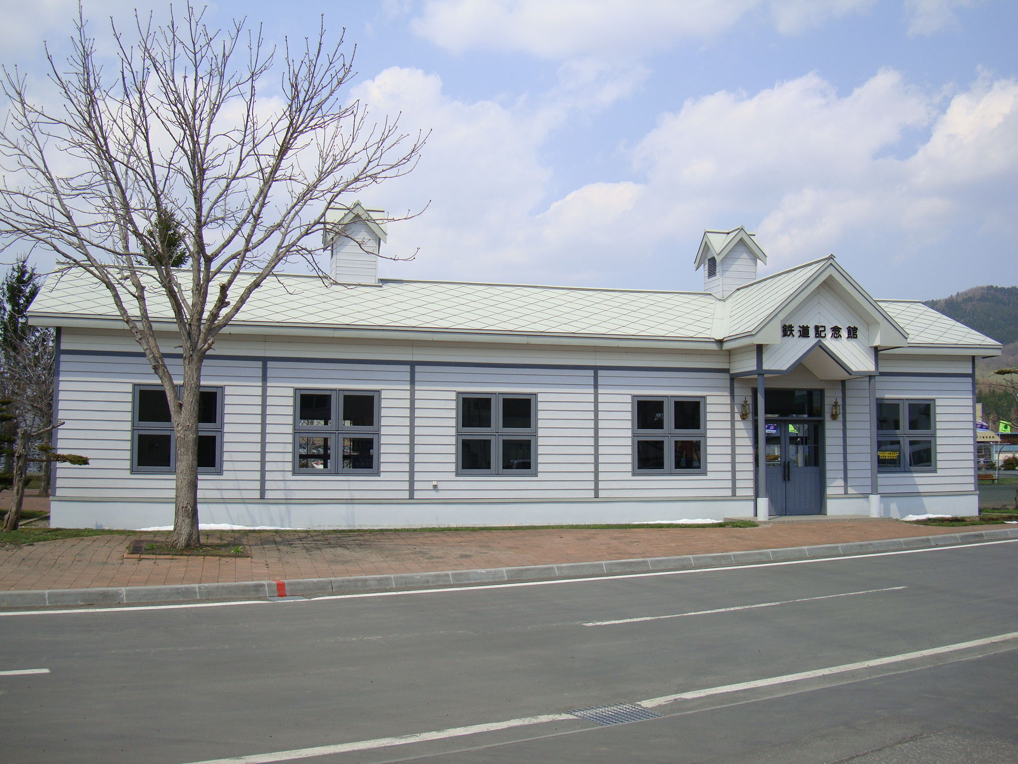 Saroma Railway musium. Disused train stations on Yūmō Line.